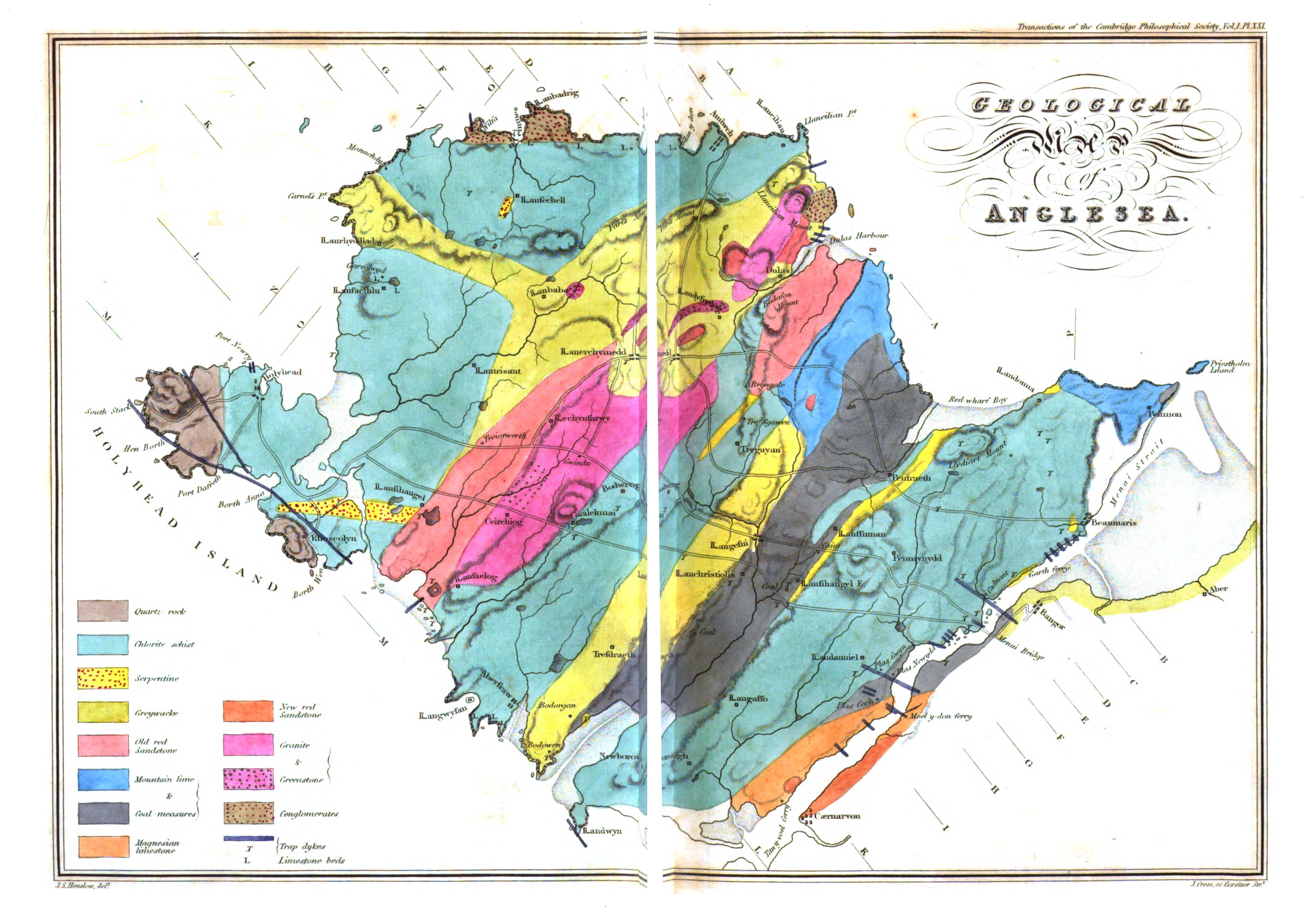 Geological map of Anglesey from J.S. Henslow's 1822 article Geological Description of Anglesea. The two pages have overlap, but have been drawn separately and the details do not exactly match. So I have not tried to stitch the two halves together.